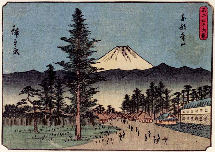 Aoyama in the Eastern Capital (Japanese: 東都青山, Tōto aoyama). No. 16[1] (or No. 21[2]) in the series Thirty-six Views of Mount Fuji (first version).